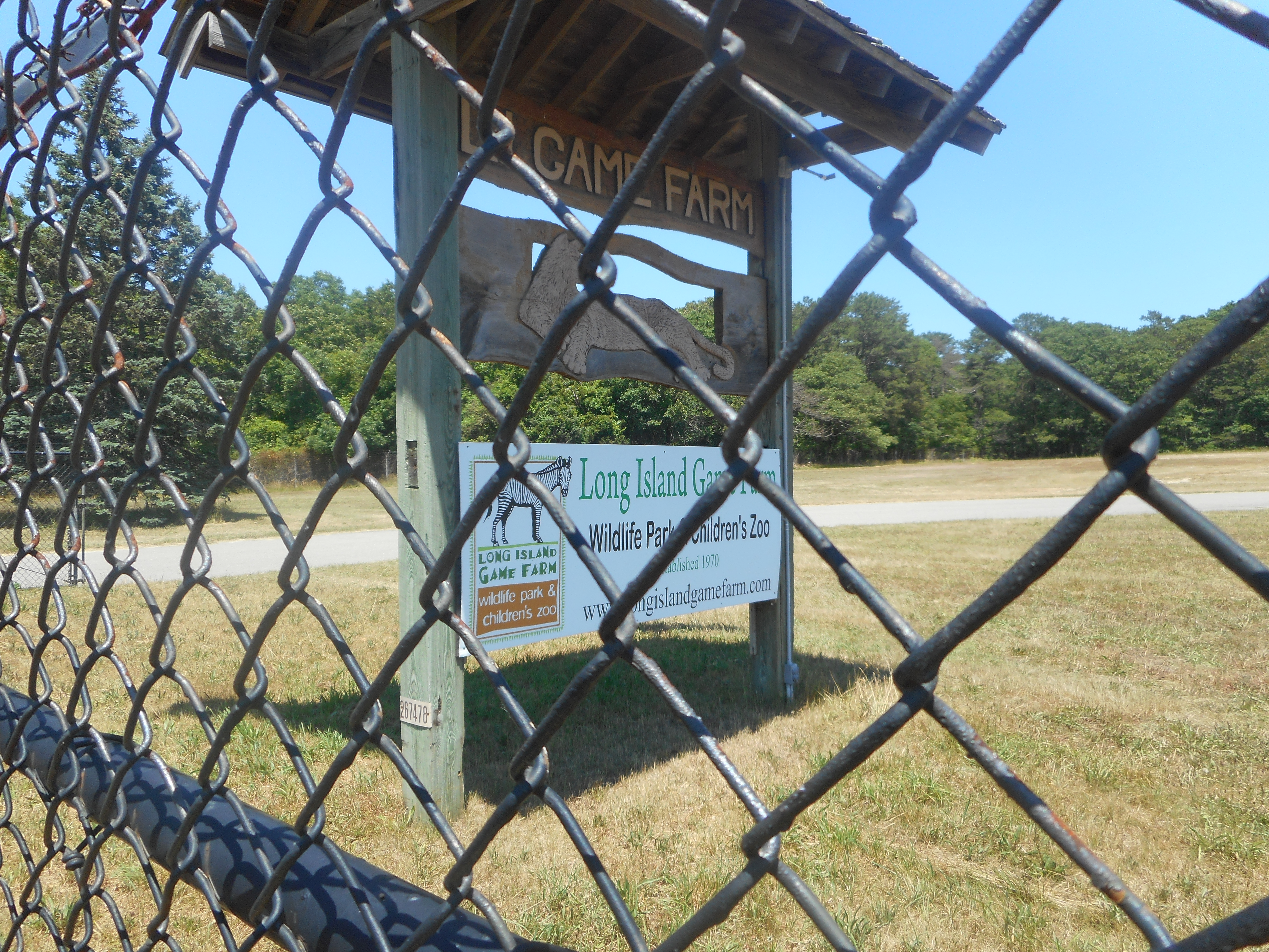 Looking northeast towards a sign for the Long Island Game Farm behind a chain-link fence off of Chapman Boulevard in Manorville, New York.